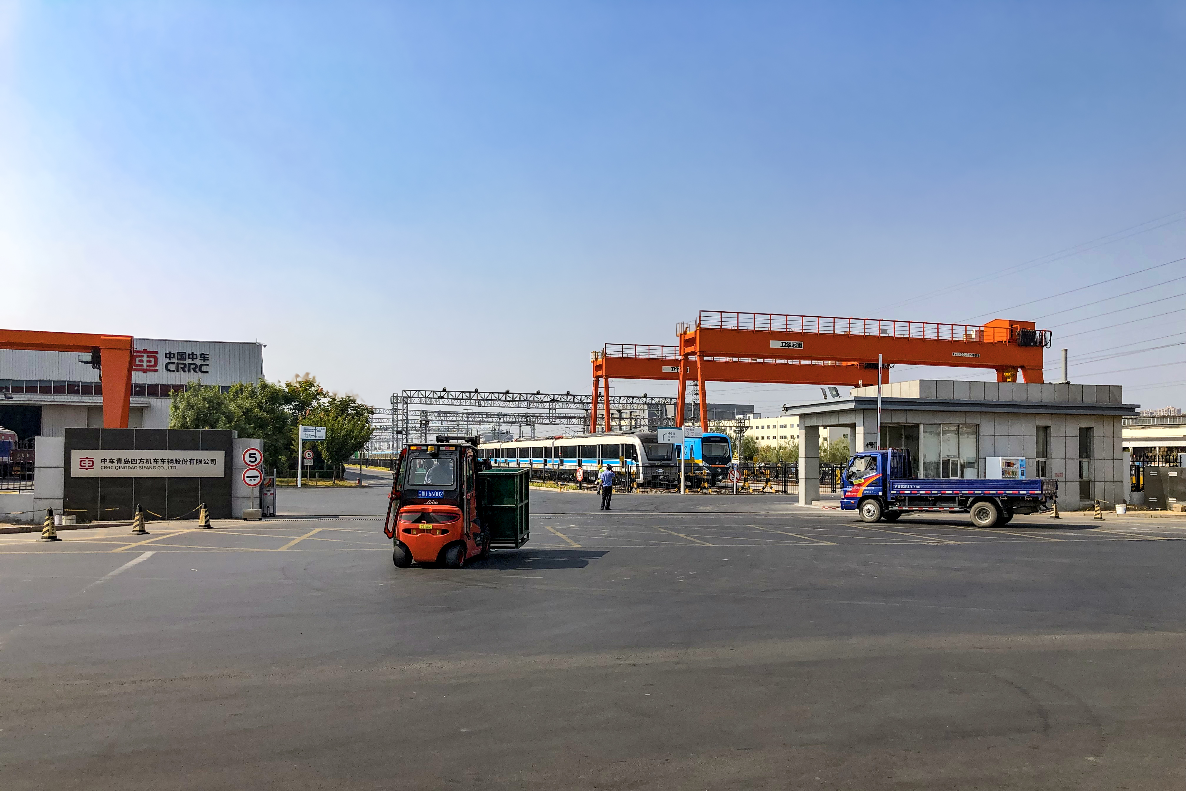 Finally made it... but the "EMU town" is inadequate.